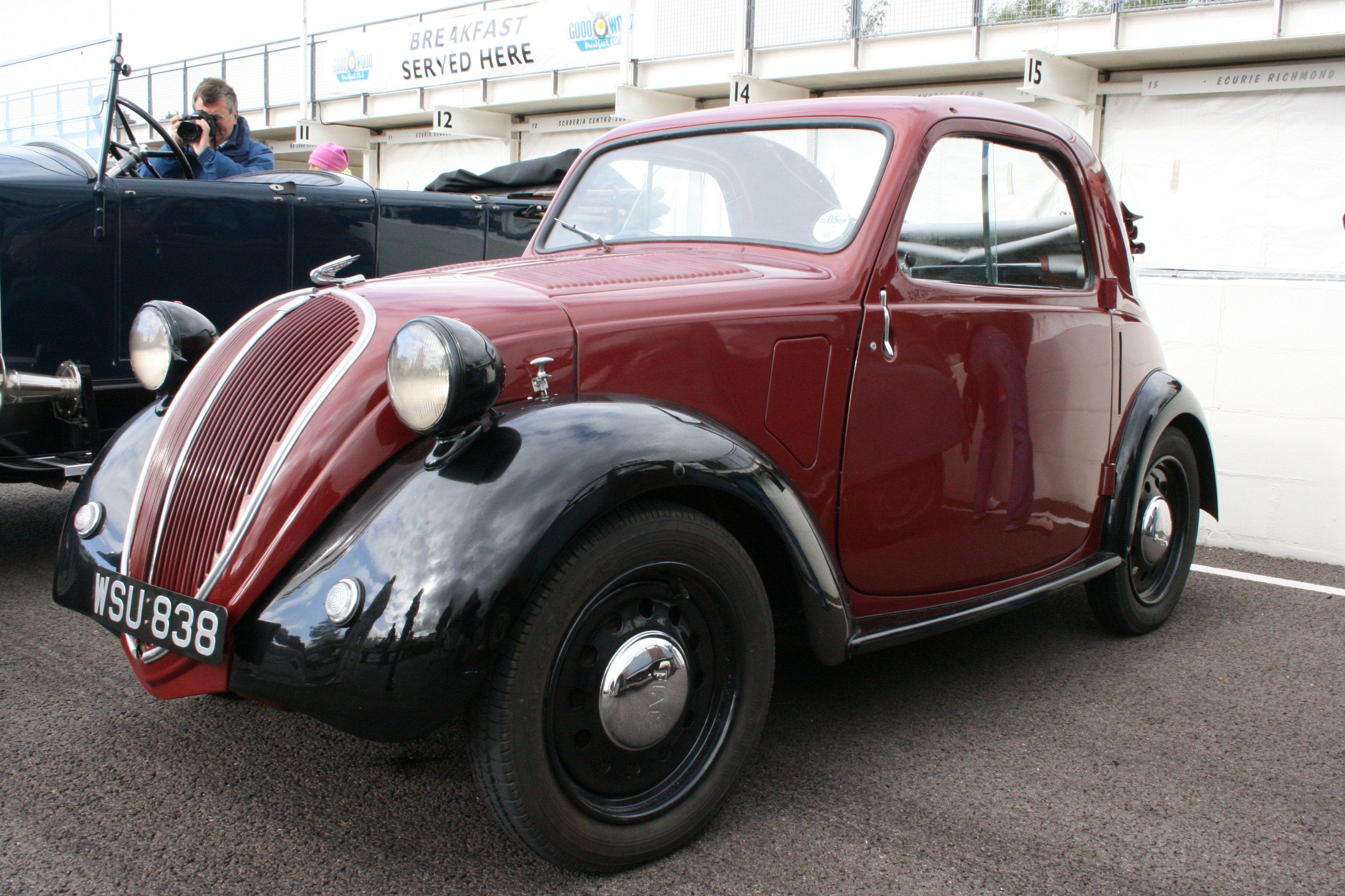 Cute little 1937 Fiat 500 Topolino